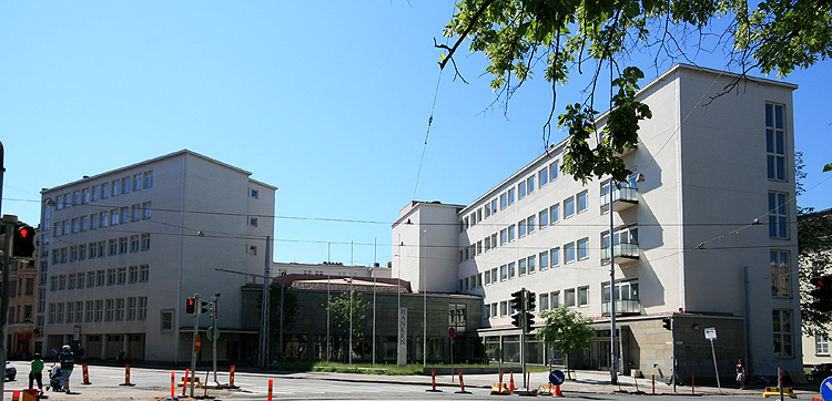 Svenska Handelshögskolan (Swedish School of Economics and Business Administration), Runeberginkatu 10, Helsinki. Built 1953. Architect: Kurt Simberg.